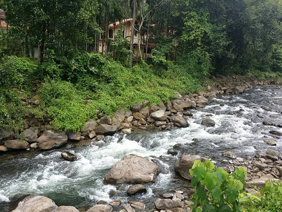 Mahe (Mayyazhi) River at Vilanged